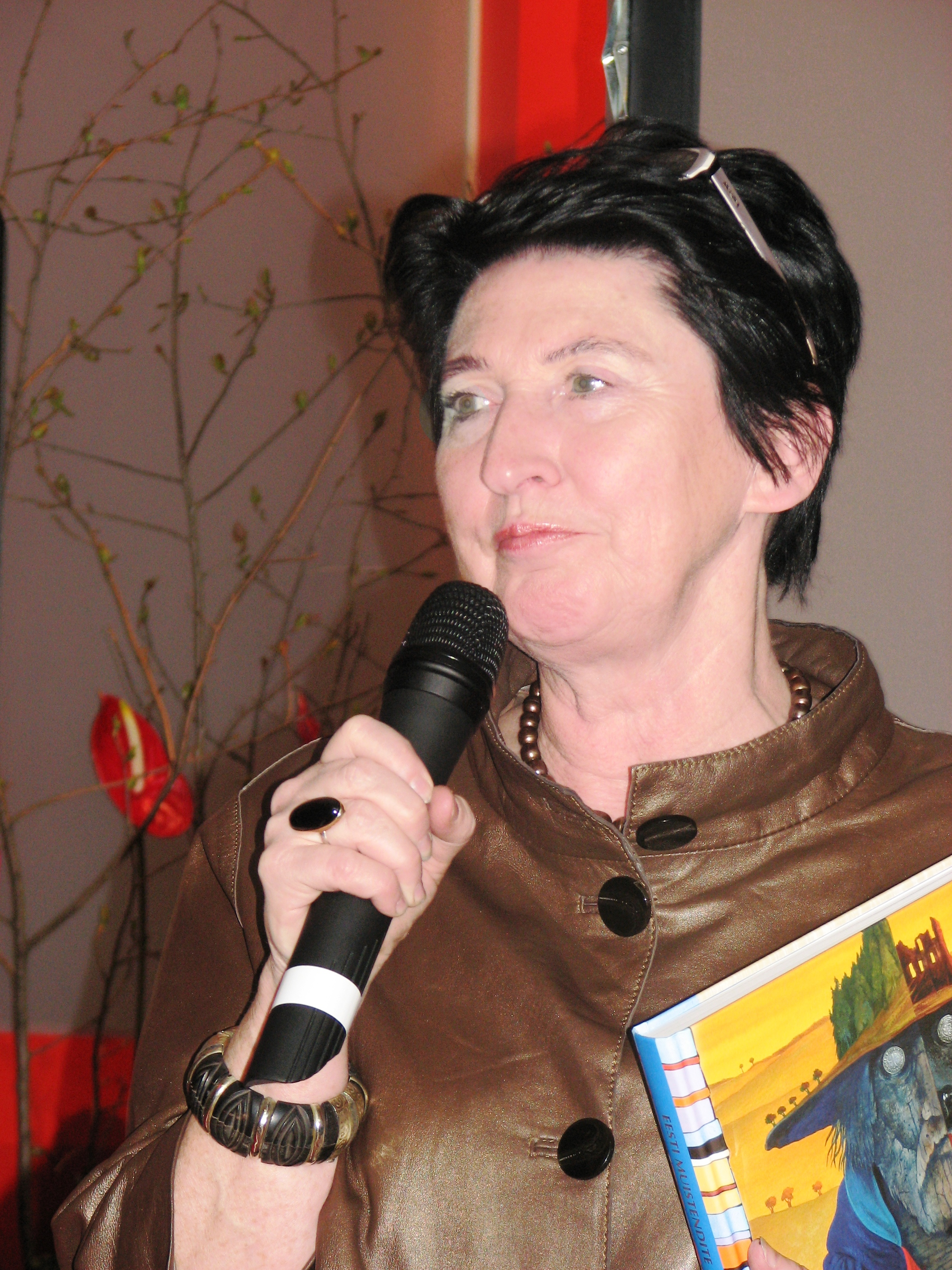 Silva Tomingas in the Baltic Book Fair.